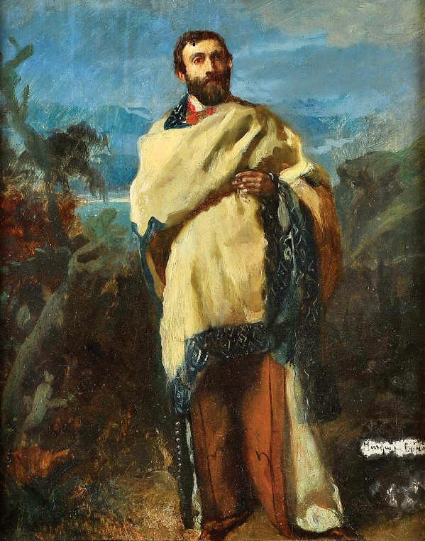 "The Sculptor Soares dos Reis" (1882), by Marques de Oliveira.